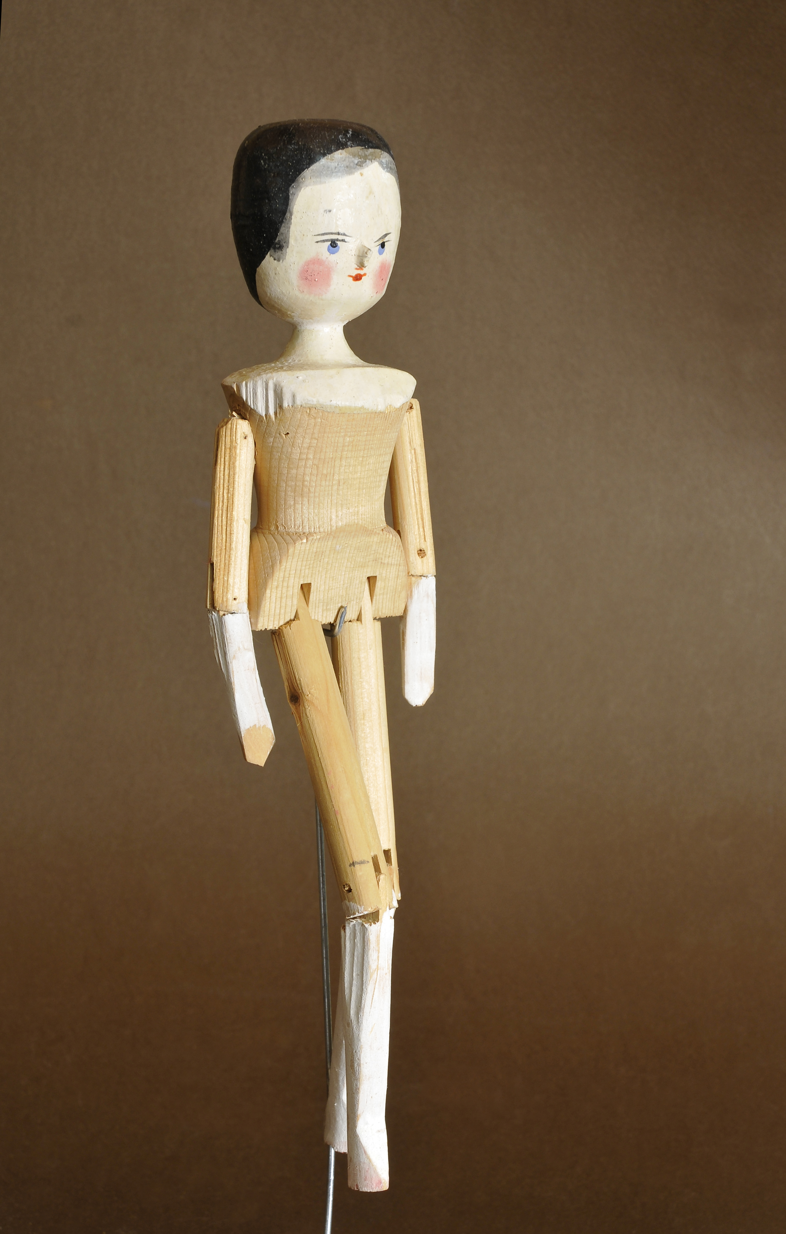 Stick doll or penny doll, in England called also dutch dolls from Val Gardena late 19th century. Private collection